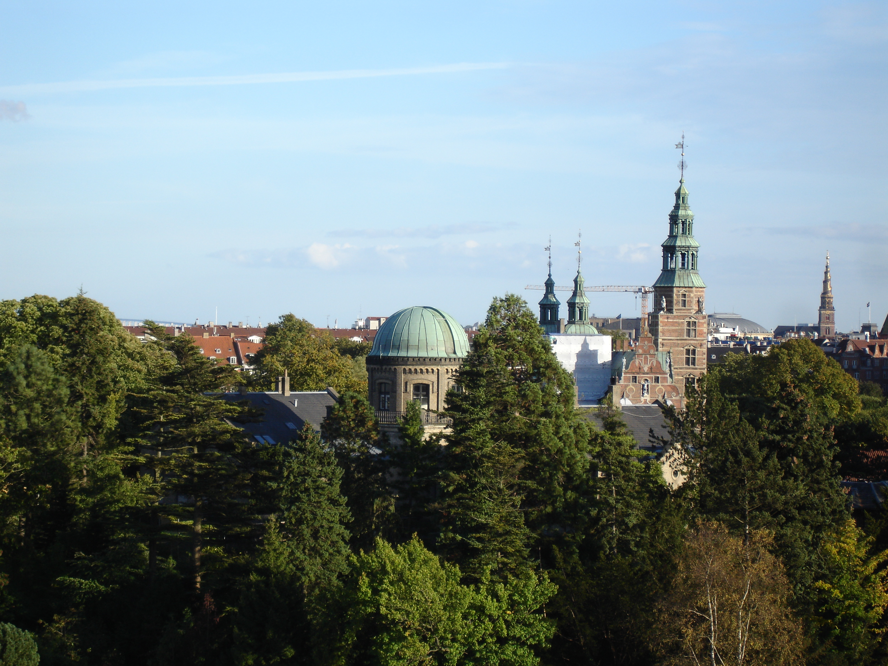 View over Astronomical building and Rosenborg Castle, Copenhagen, Denmark